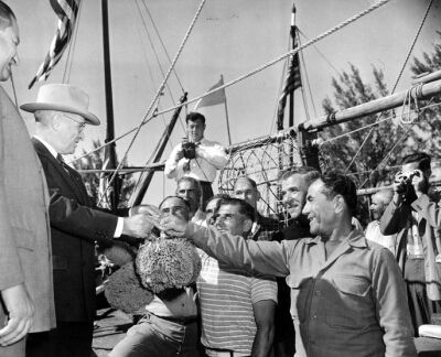 Greek American sponge divers offer President Harry S. Truman some of their prize wares at an impromptu lunch stop near the Everglades, Florida. From the album of the President's third vacation trip to Key West, Florida.